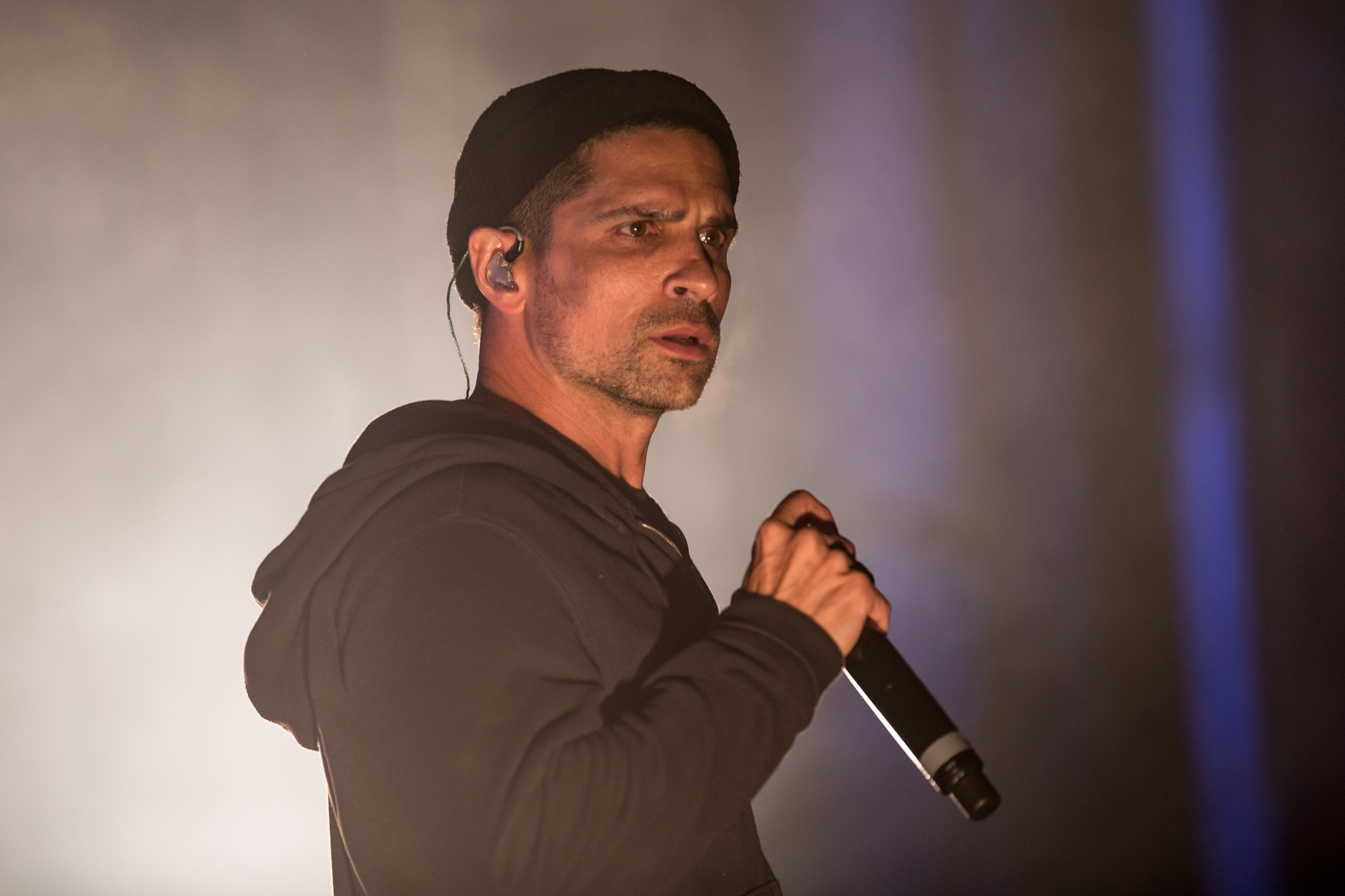 Concert of the duo AllttA (composed of 20syl and Mr. J. Medeiros) during the Natural Games in Millau, France.